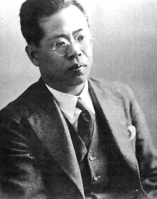 Woo Jang-chun as an adult man in his 40s, taken when he was in Japan.